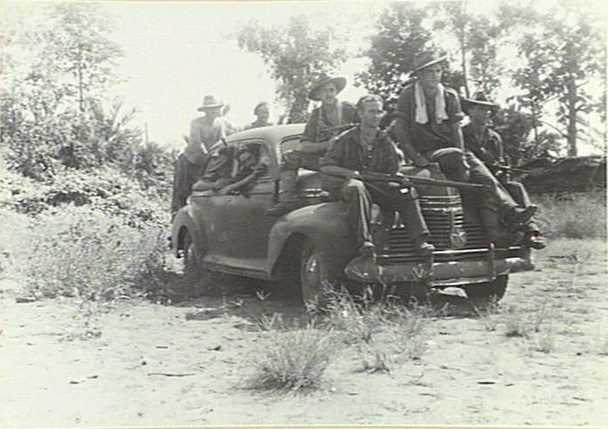 Soldiers from the Australian 4th Infantry Battalion on patrol near Hansa Bay, New Guinea, 1944, using a captured Japanese staff car.